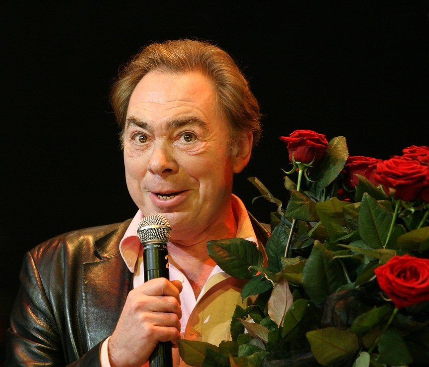 Andrew Lloyd Webber while visiting Roma Musical Theatre in Warsaw staging his musical "The Phantom of the Opera", 15.11.2008.